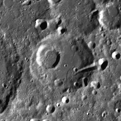 Rynin lunar crater - LROC image.